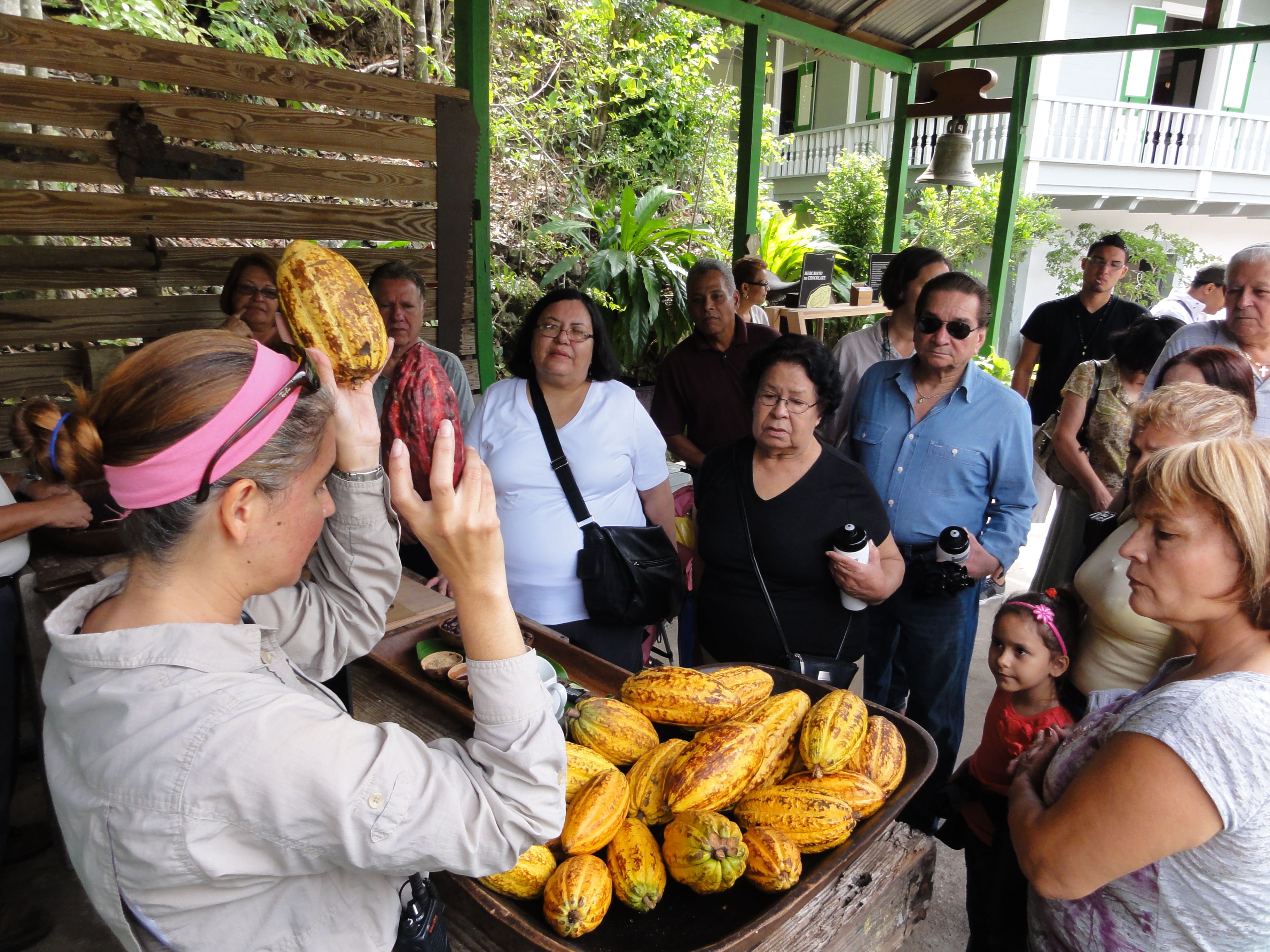 Una guía demuestra durante su recorrido turístico en Museo Hacienda Buena Vista, Bo. Magueyes, Ponce, PR (DSC03588)